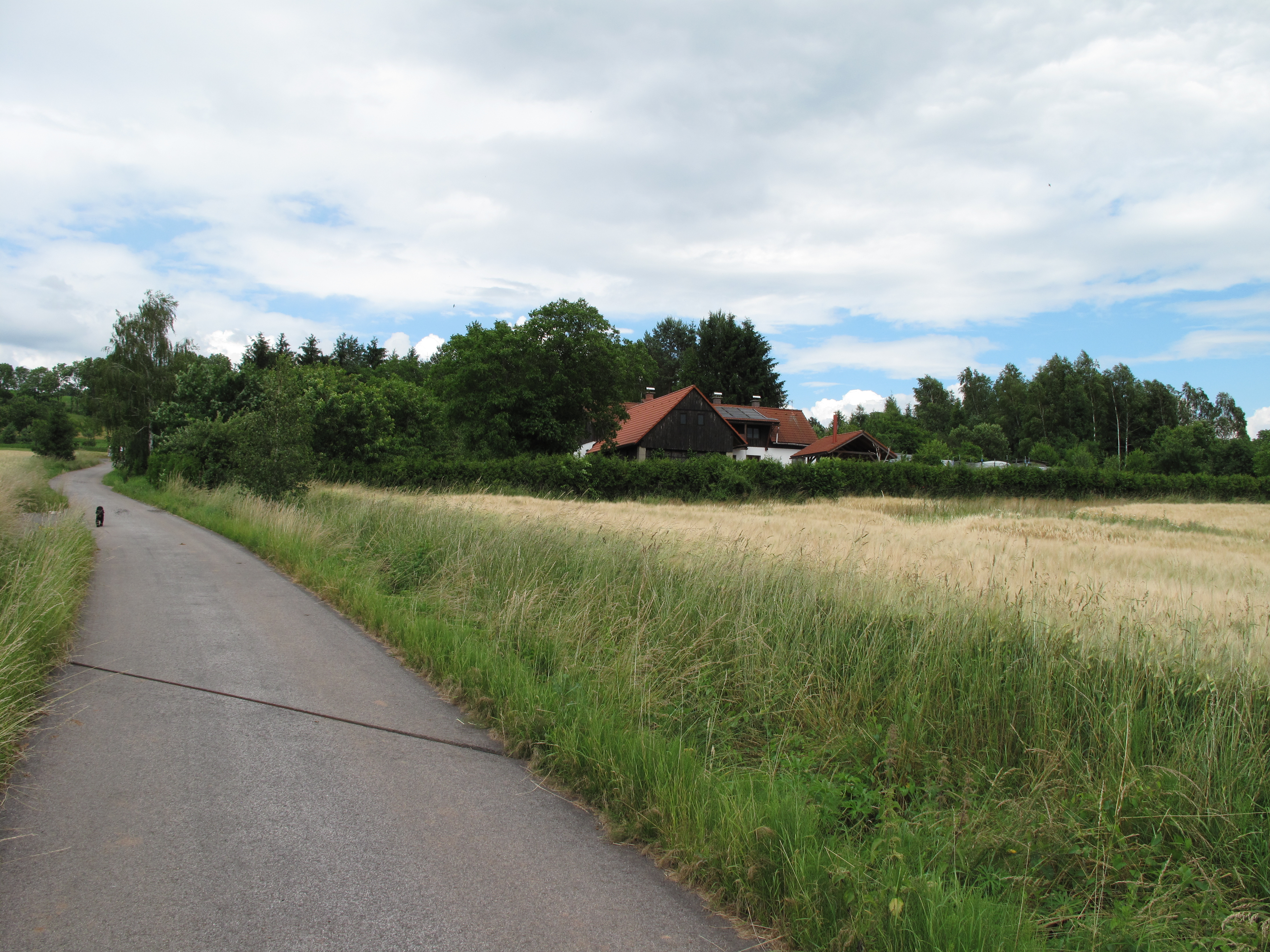 Road in Podhájí village, Jičín District, Czech Republic.